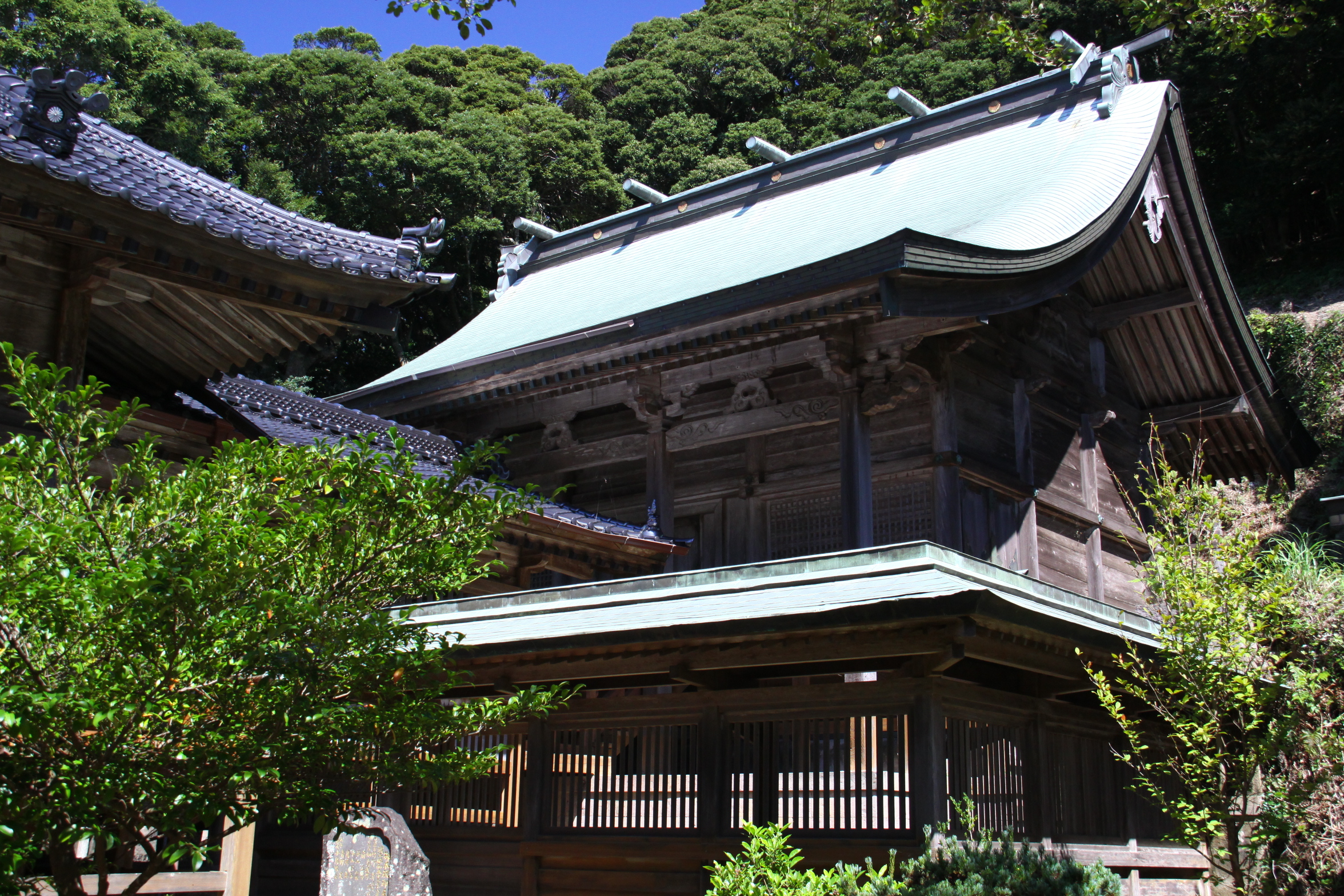 Kaijin jinja Honden